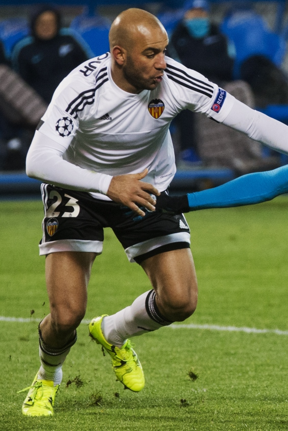 Aymen Abdennour